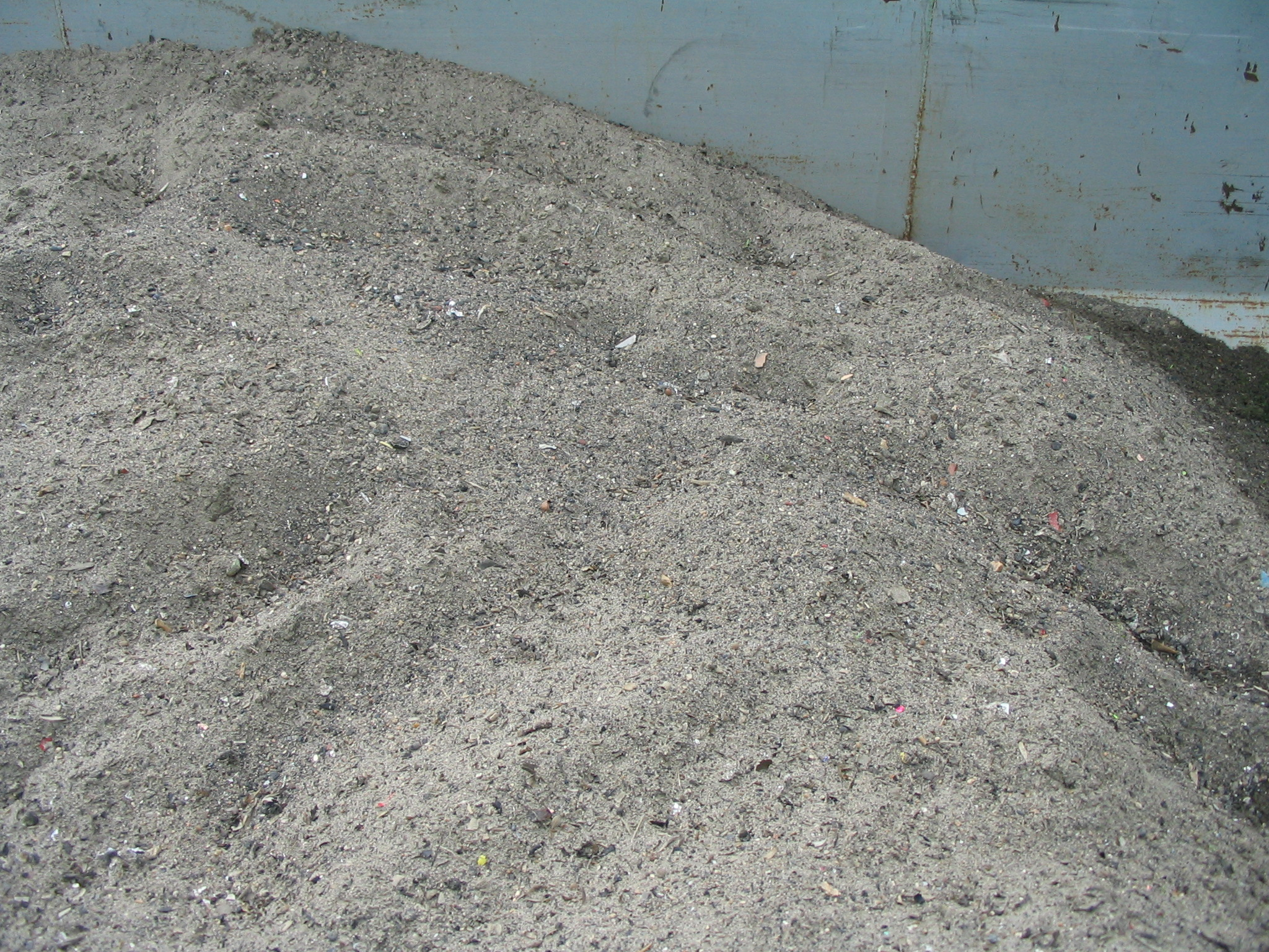 Sewage treatement -sand/grit removal residue